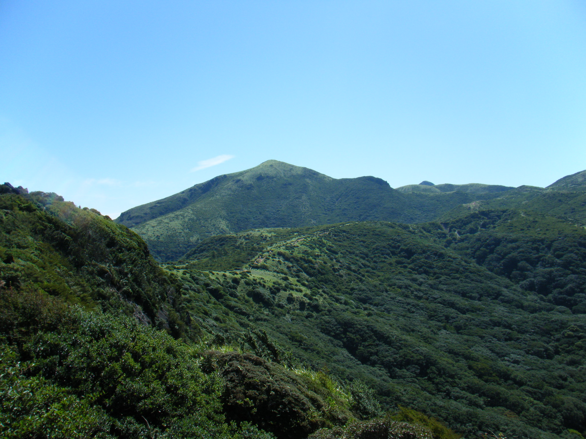 Mount Hossho (Hossho-zan) as seen from the west in Mount Kuju, Oita Prefecture, Japan.